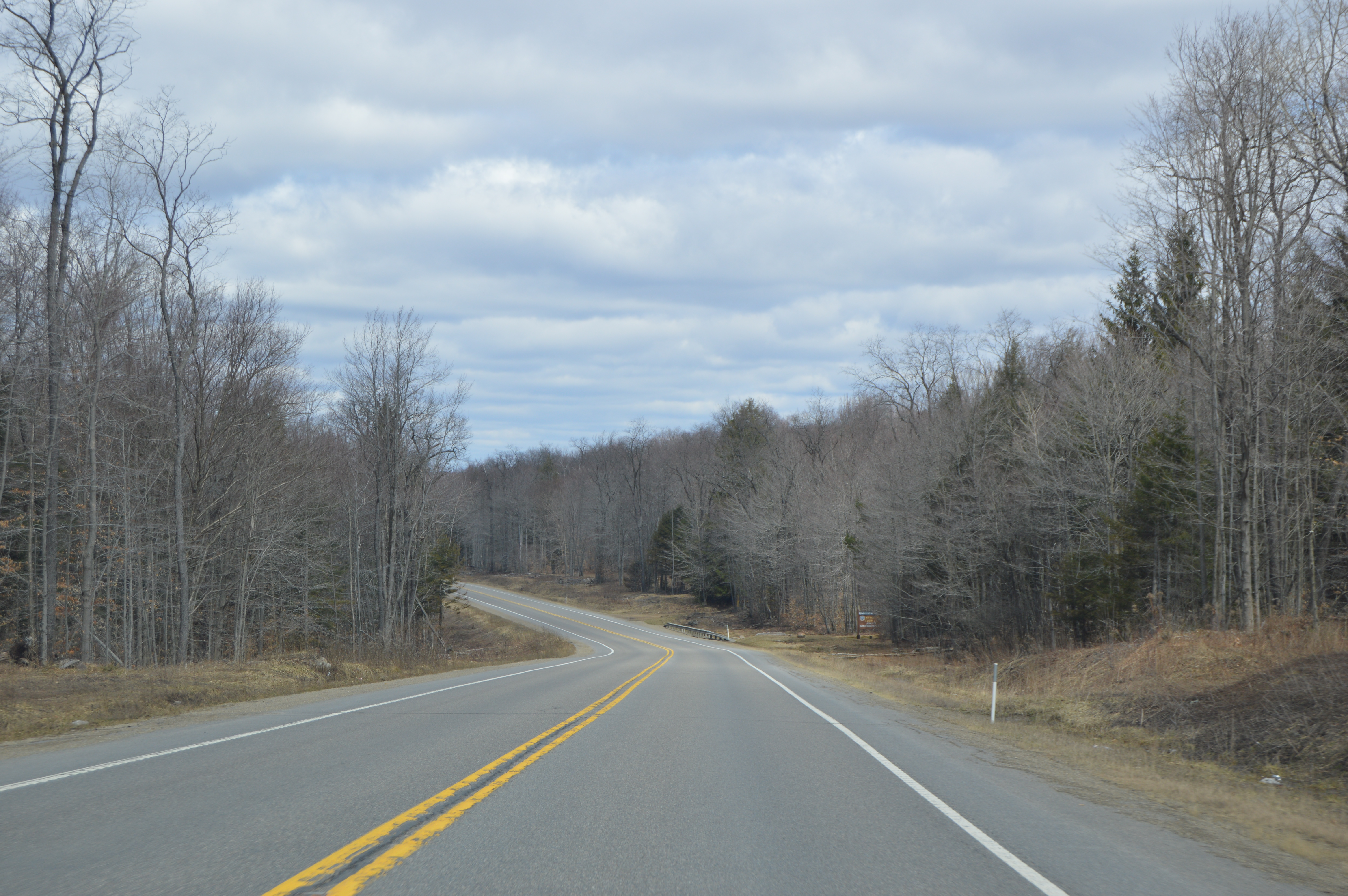 Northbound along U.S. Route 219 south of Lewis Run in Lafayette Township, McKean County, Pennsylvania, United States.